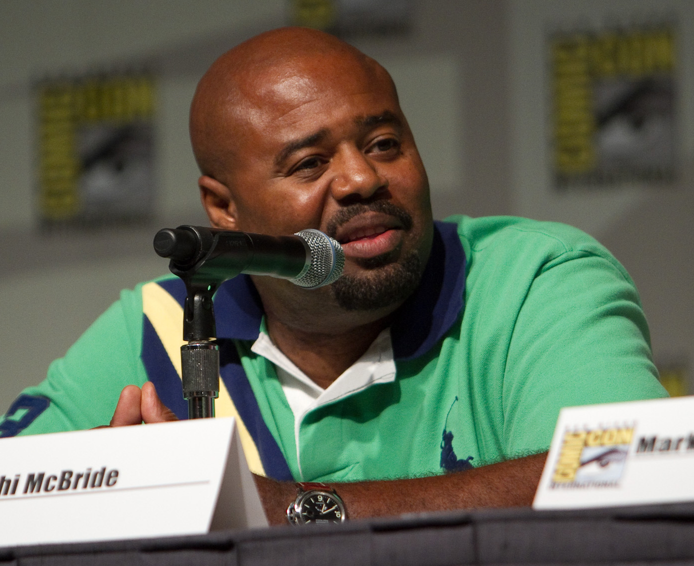 Chi McBride at a San Diego Comic-Con panel for Human Target in July 2010.